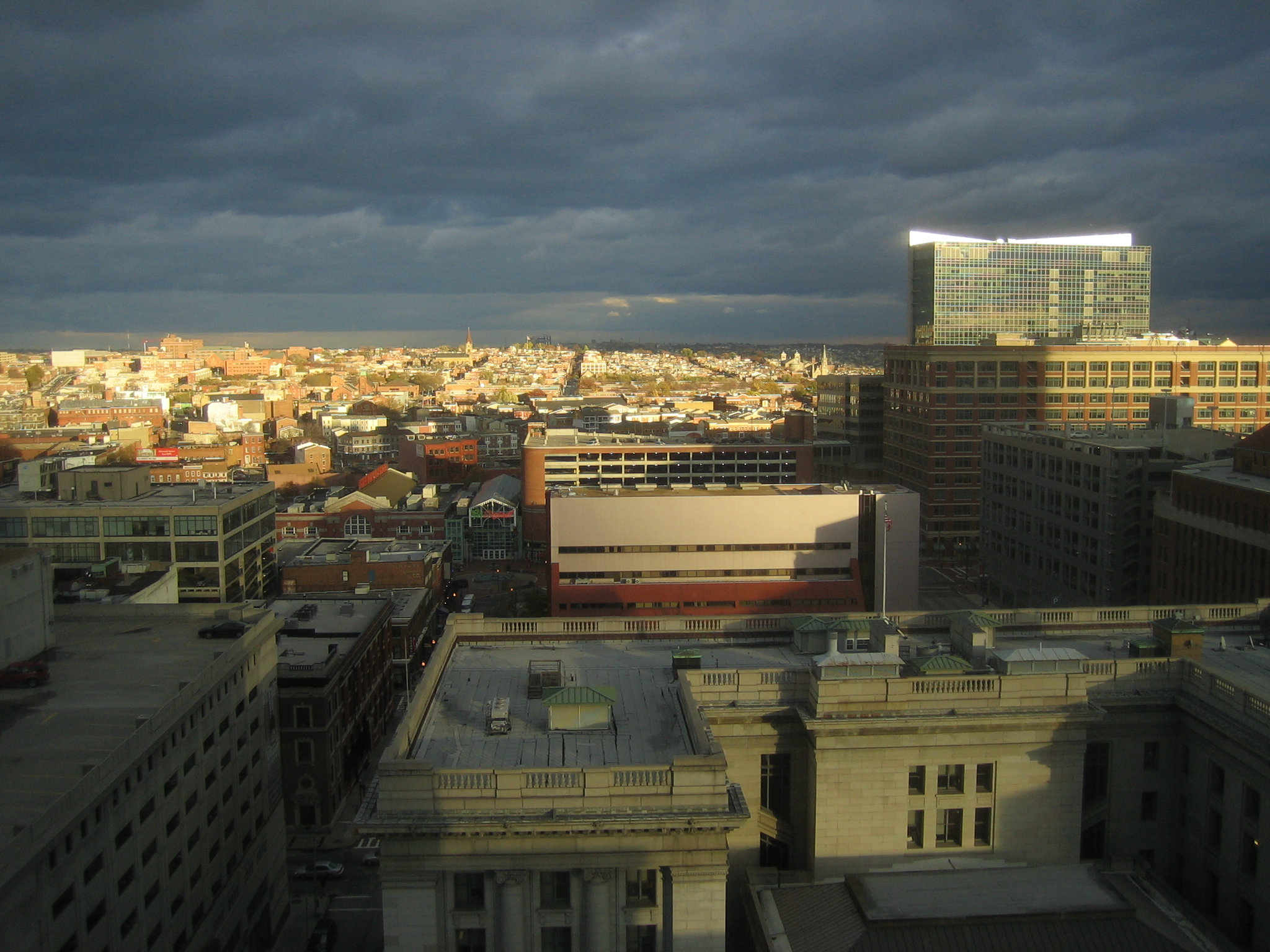 Inner Harbor sky in Baltimore after a storm passed